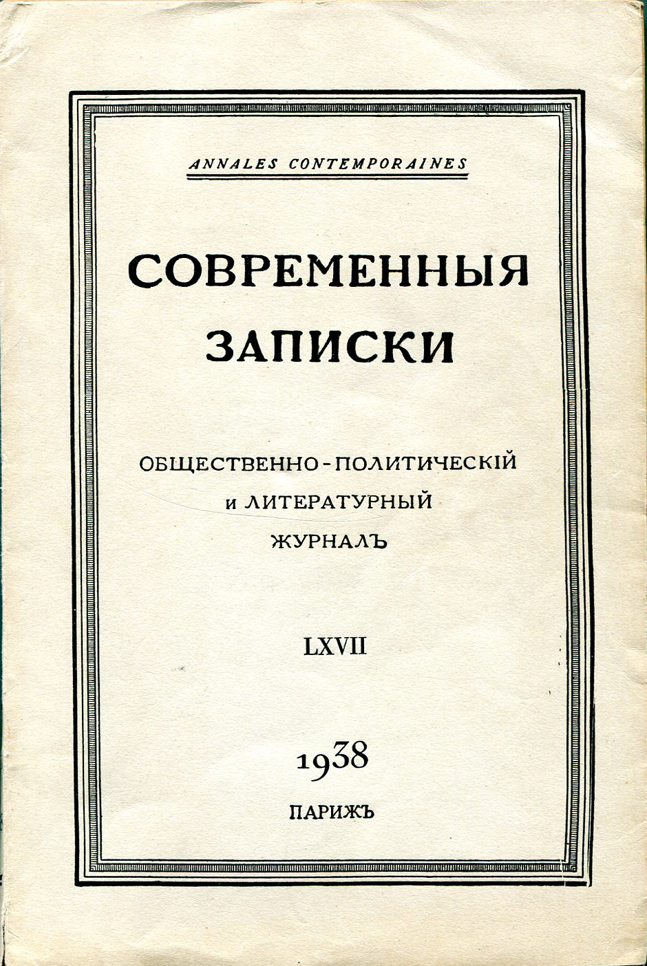 Paperback of a Russian magazine "Sovremennye Zapiski" in Paris. The Gift, а novel by Vladimir Nabokov (Sirin) was published there.